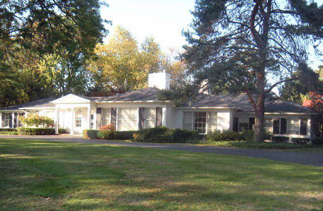 Hugh T. Keyes designed house in Franklin Hills, MI